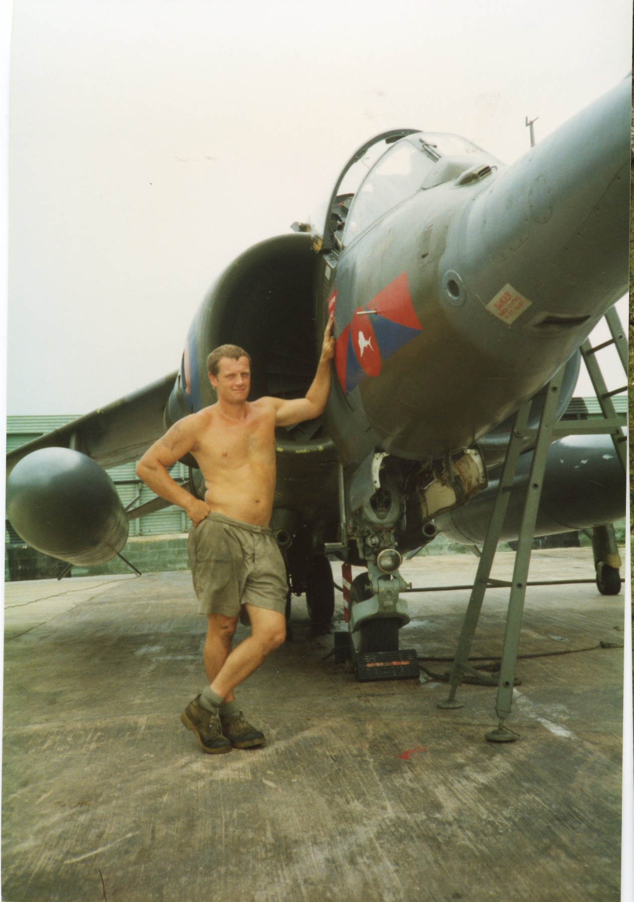 Me leaning against one of my charges, note the large 330 Gallon drop tanks (only used for ferry flights), illustrating the Aircraft badge applied to 1417 Flight aircraft in Belize.